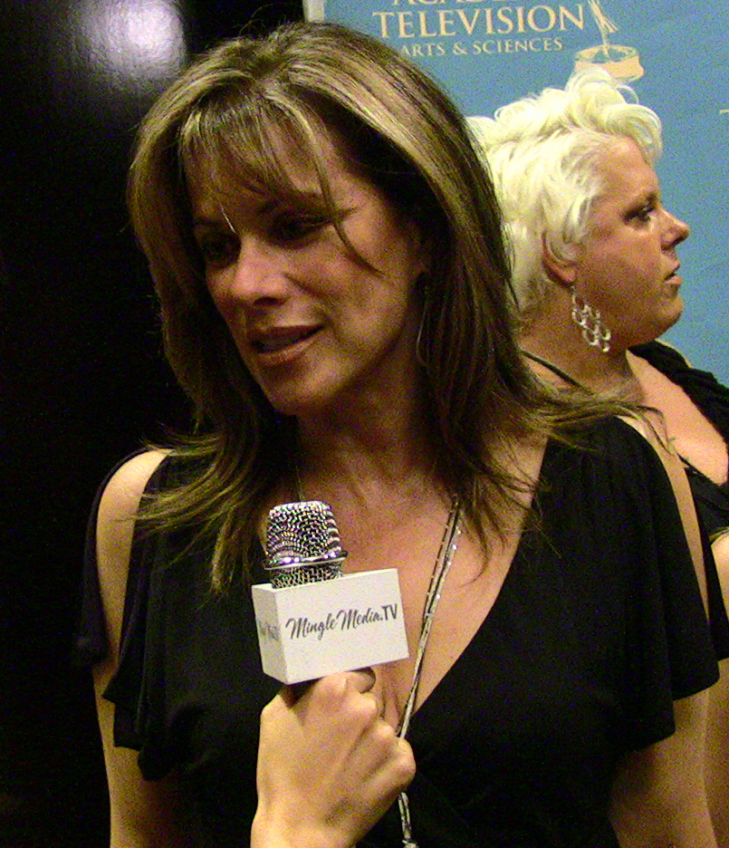 Nancy Lee Grahn by Mingle Media TV - The Creative Arts Emmys.